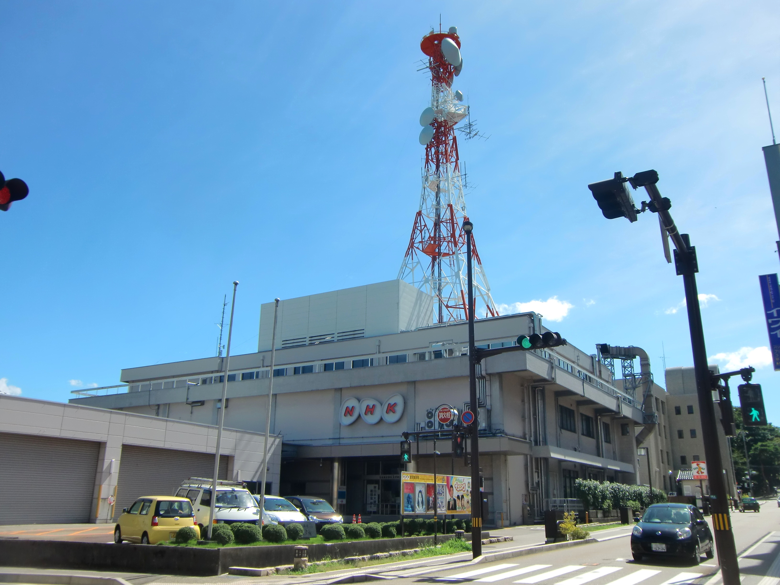 NHK Kanazawa broadcasting station in Ōtemachi, Kanazawa city, Ishikawa prefecture, Japan.